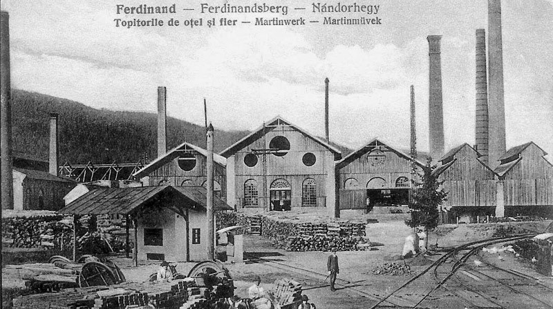 The area was colonised by Germans. Also, Italians are brought in to work in metalworking industry - year 1796